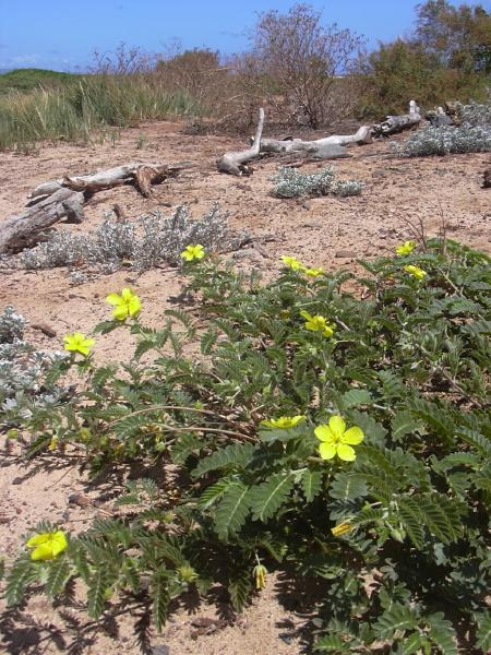 Tribulus cistoides on a beach in Maui, Hawaii, by Forest and Kim Starr (USGS), from [1].